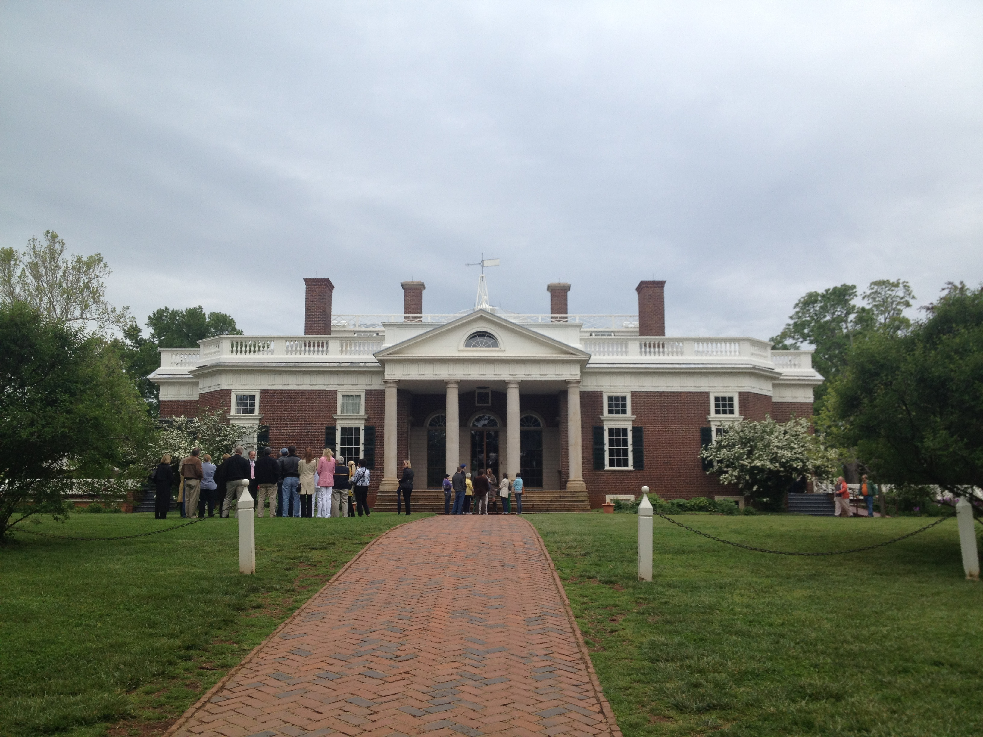 The front view of Monticello. Charlottesville, Virginia